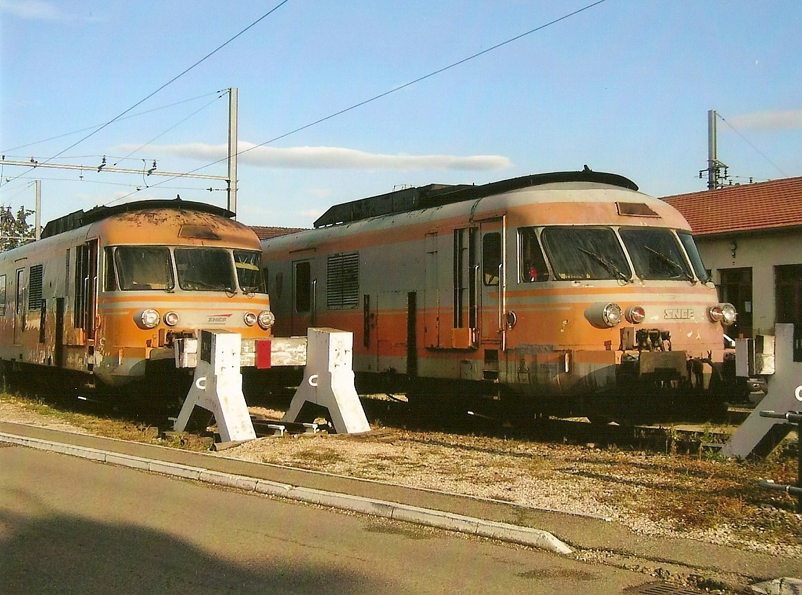 French gas locomotives seen here at Vénissieux garage, near Lyon.